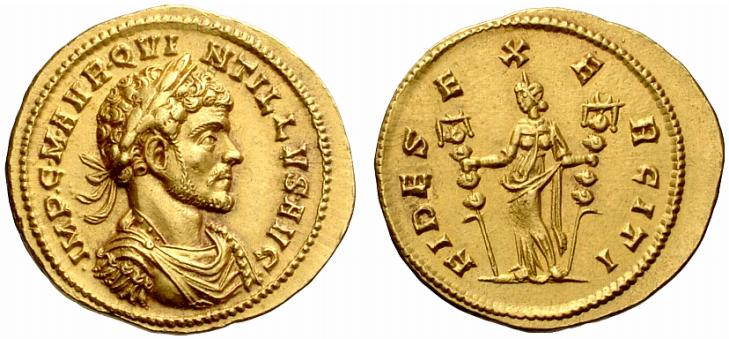 Quintillus, 270, Aureus, Milan September-November 270, 5.15 g. IMP C M AVR QVI – NTILLVS AVG Laureate, draped and cuirassed bust r. Rev. FIDES – E – X – E – RCITI Fides standing facing, holding standard in each hand. RIC –. C –. Vagi 2396. Calicò 3968 (these dies). H. Huvelin and J. Lafuarie, RN 1980, 54 (these dies).